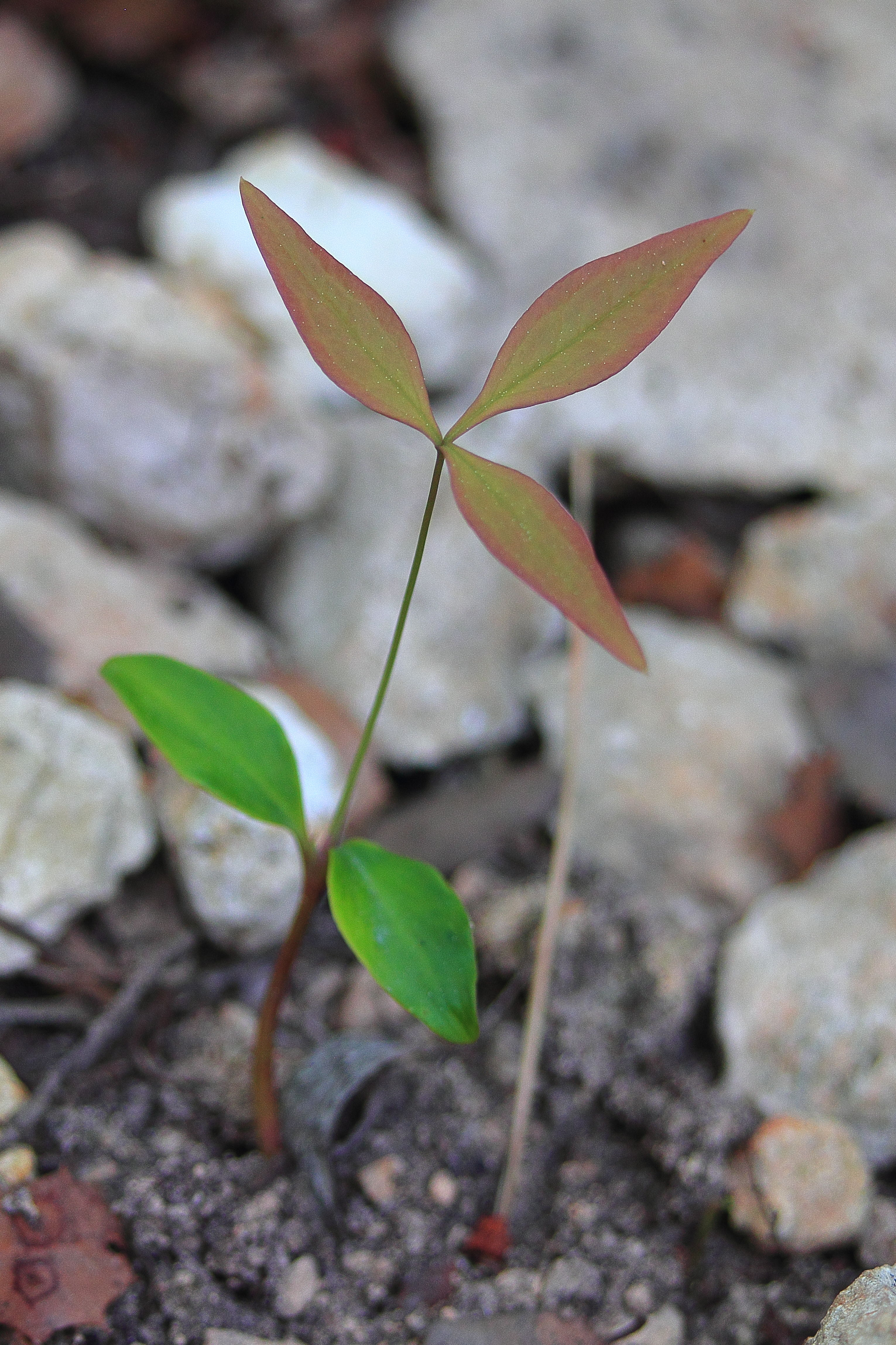 Nandina domestica ssedling, with two green cotyledons, and a first red-green leaf.